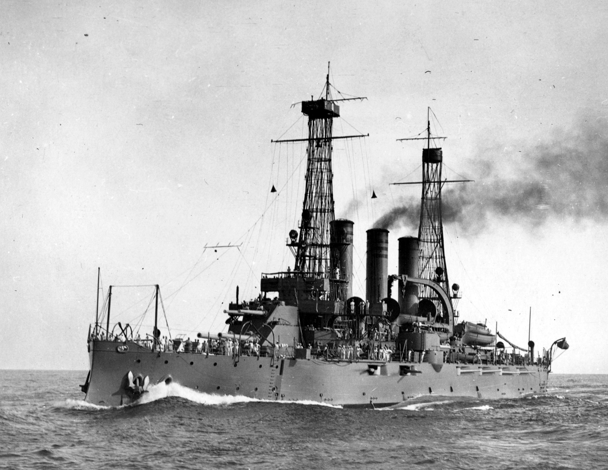 USS Virginia (BB-13) battleship, circa 1910-1913 Removed caption read: Photo # NH 73769 USS Virginia underway, circa 1910-13